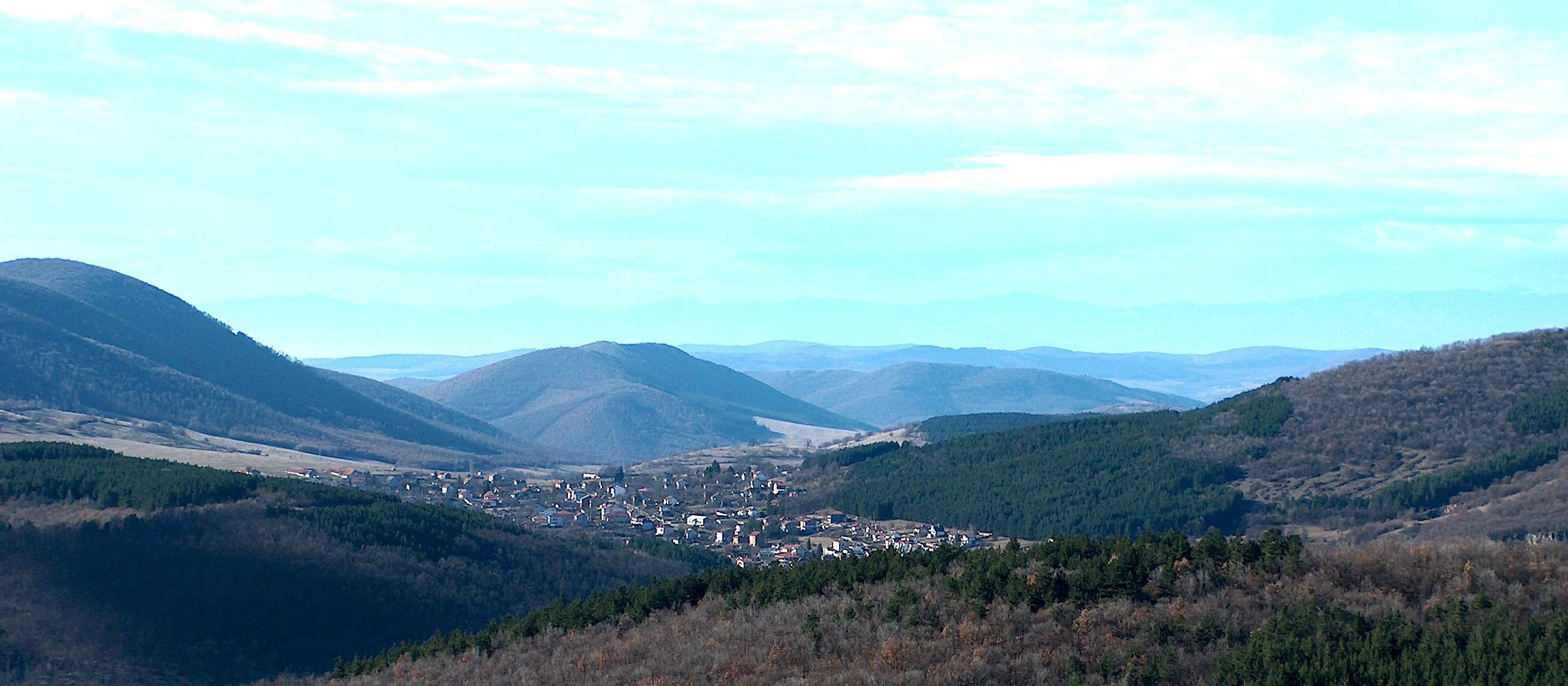 Bulgarian village Sulica-general view from north